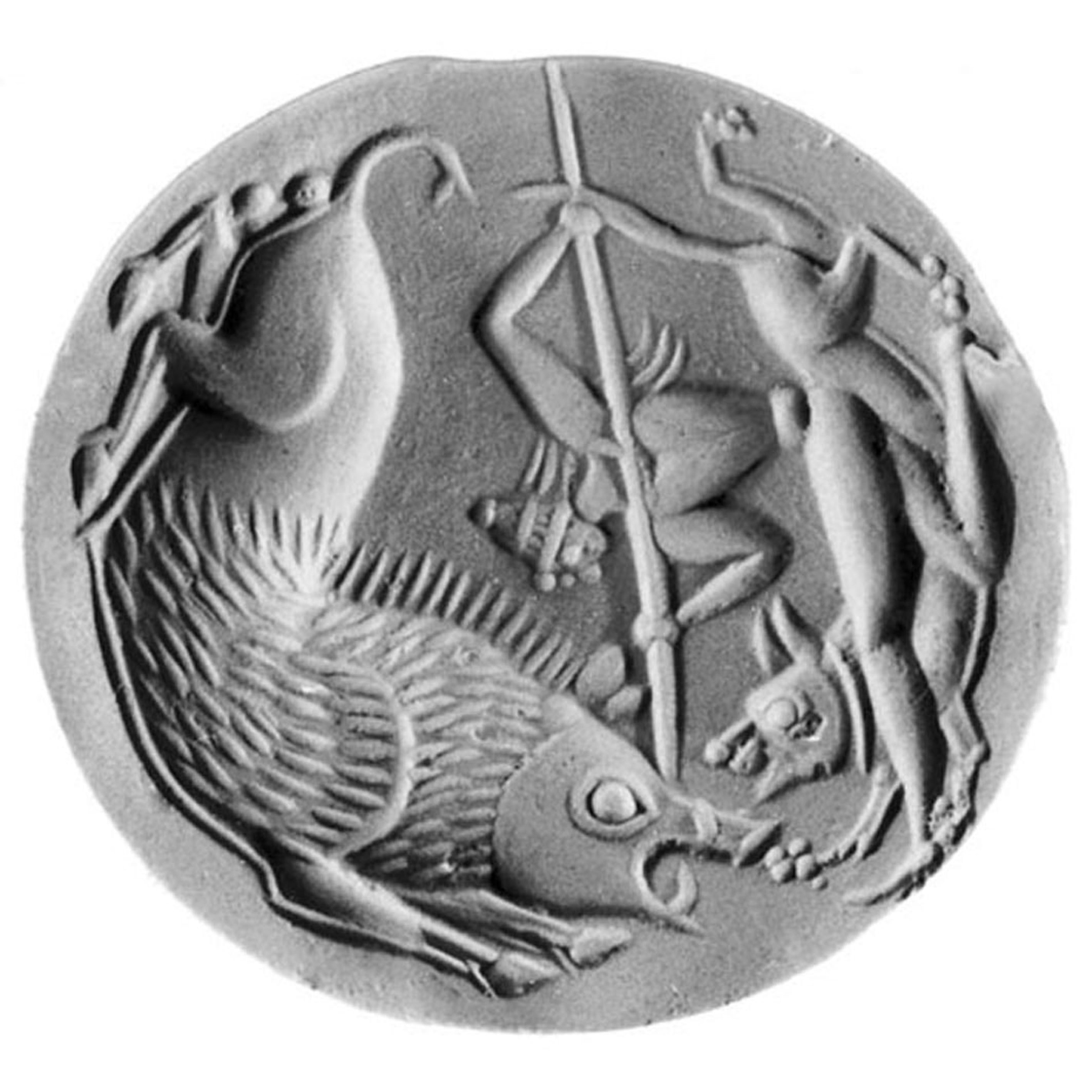 ancient minoan seal, showing pig (clay model)